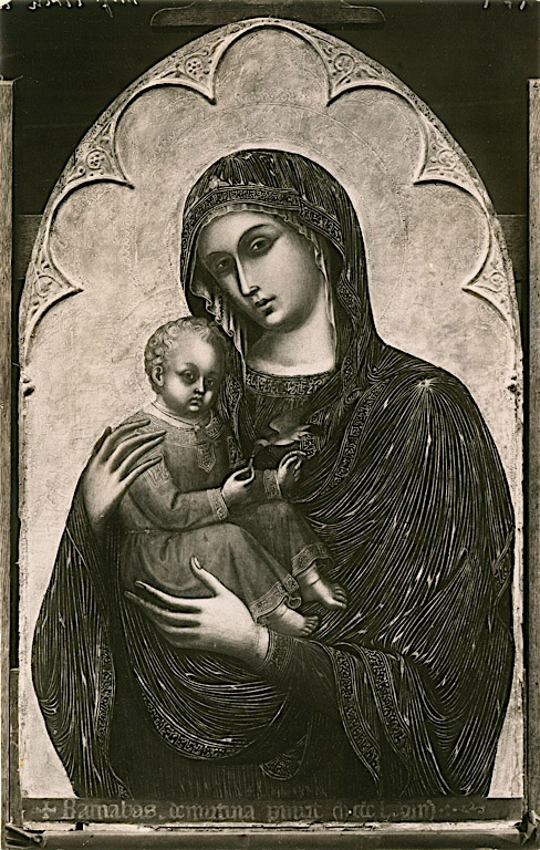 'Madonna and Child Feeding Goldfinch', by Barnaba da Modena (1369), a painting possibly destroyed in the Friedrichshain flak tower fire in Berlin, at the end of the Second World War (May 1945). The painting belonged to the collections of the Kaiser-Friedrich-Museum, now the Bode-Museum of Berlin.